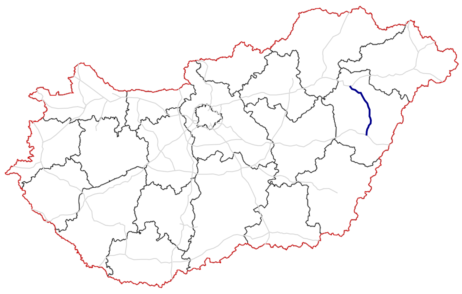 Traject the M35 Motorway, Hungary (Blue: in use, Light blue: under construction, Green: planned)